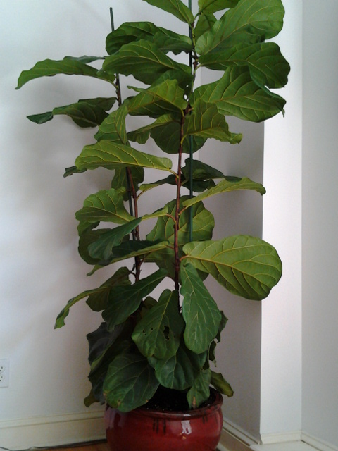 Fiddle-leaf fig (Ficus lyrata)